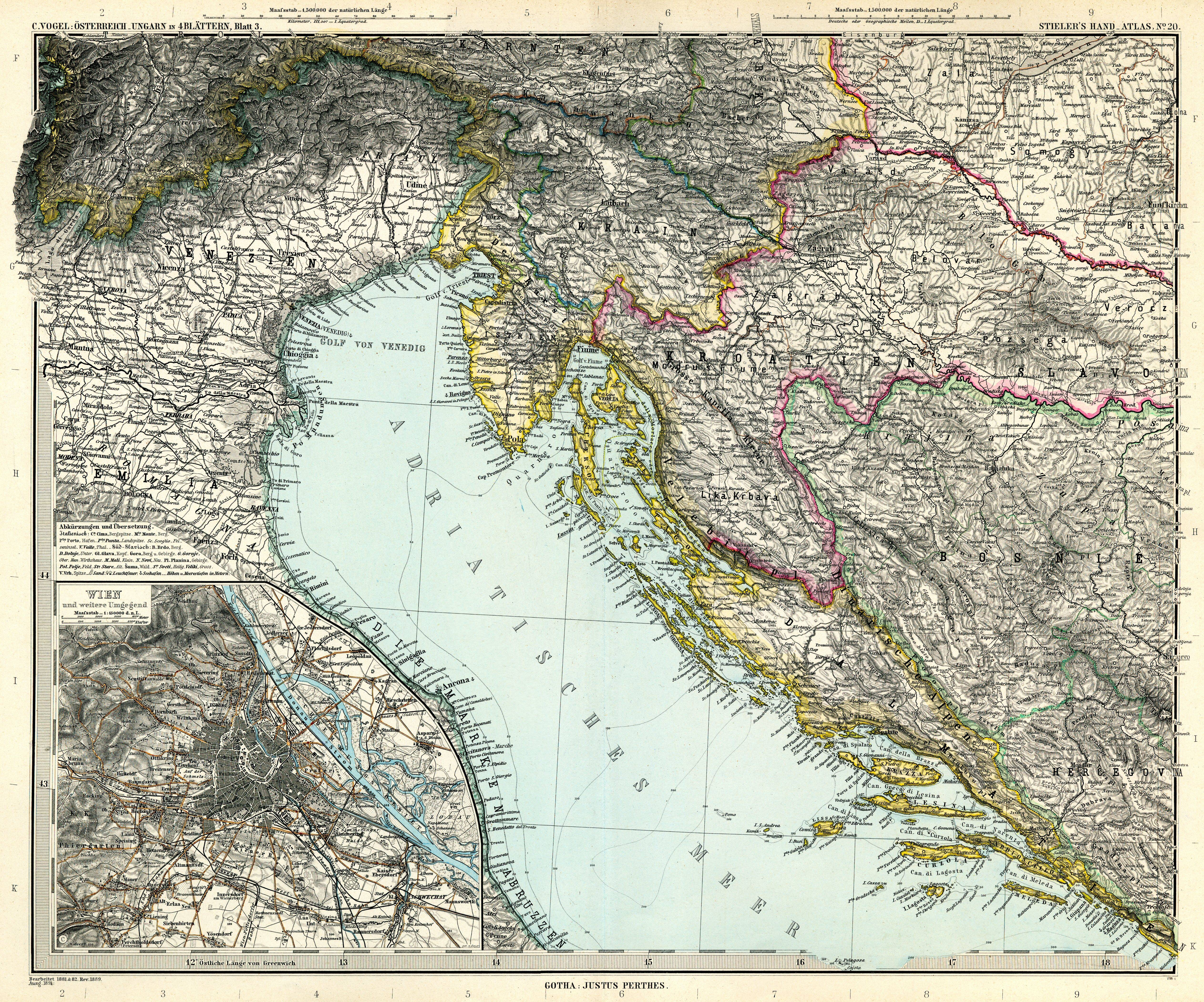 Austria-Hungary in 4 sheets, sheet 3